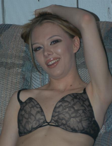 Katrice Keys (more familiarly known as Jeanie Marie Sullivan) at a World Modelling talent call